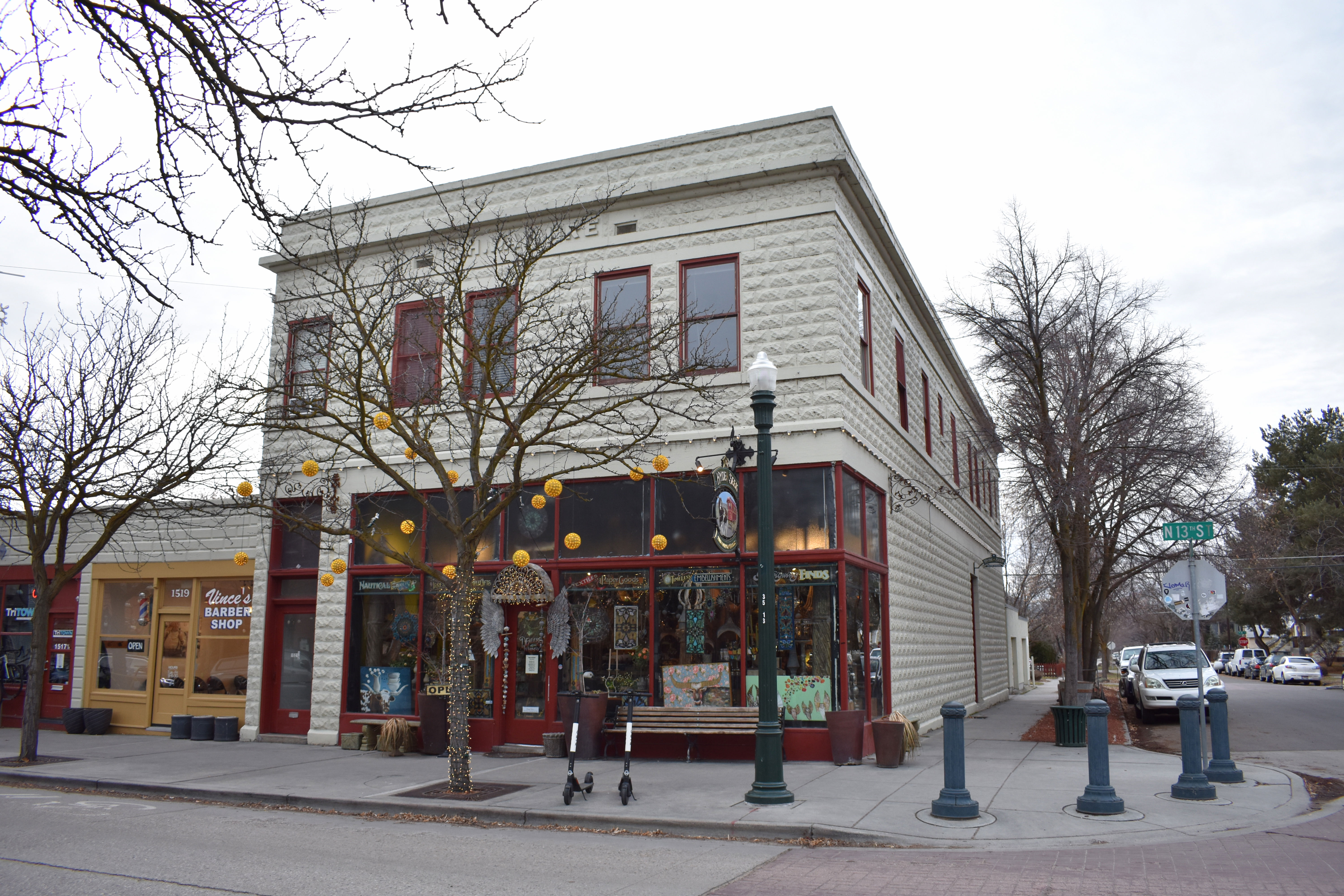 The C.H. Waymire Building in Boise, Idaho, was designed by Tourtellotte & Co. and is listed on the National Register of Historic Places. The building is also a contributing resource in Boise's Hyde Park Historic District.